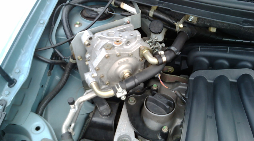 A LPG vaporizer equipped in an engine room.